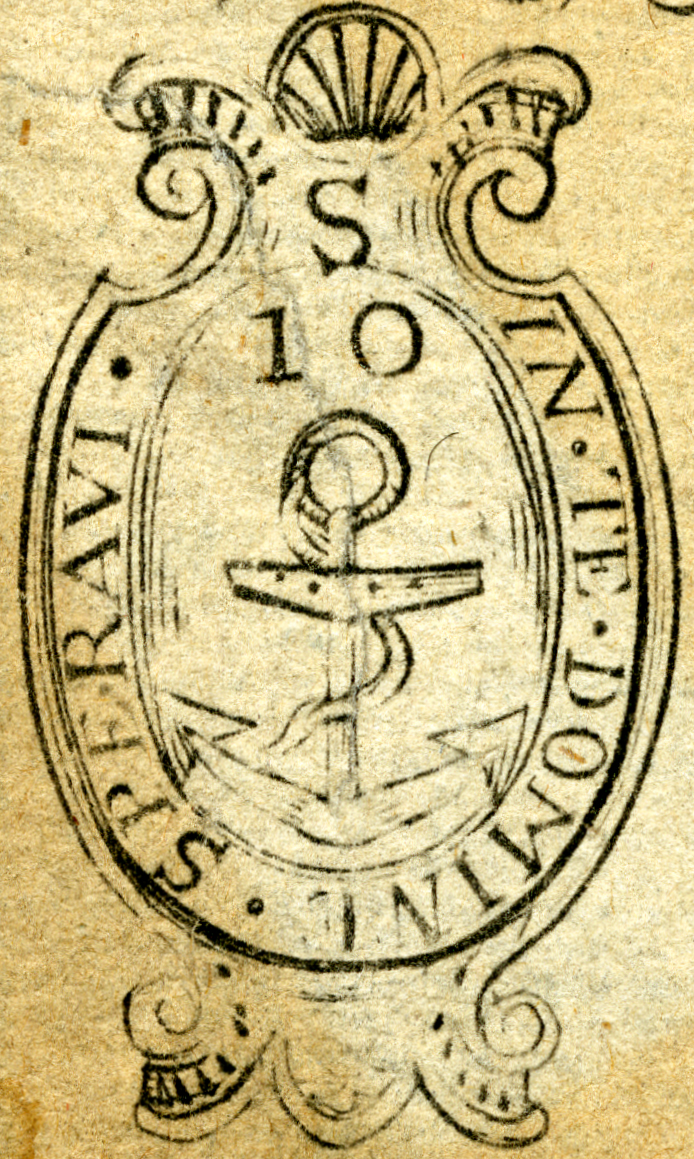 Rhode Island colony seal from colonial currency.